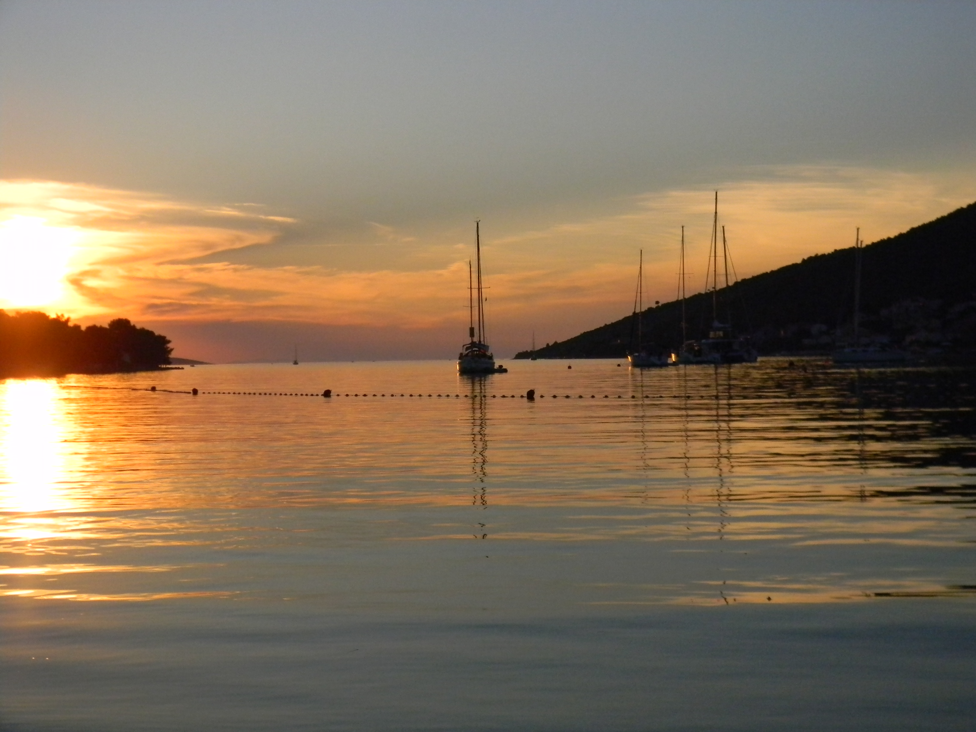 kaprije main bay